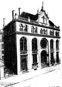 Synagogue of the orthodox Jewish community Adass Jisroel in Nuremberg (Nürnberg)